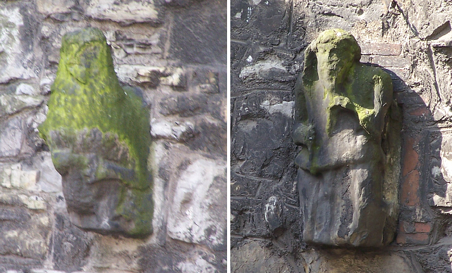 Sculptures at the fieldsite of the gate St.Nikolai.